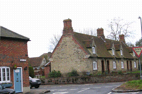 Alms Houses at Wing, Buckinghamshire, England. Photographed by uploader and released into public domain.